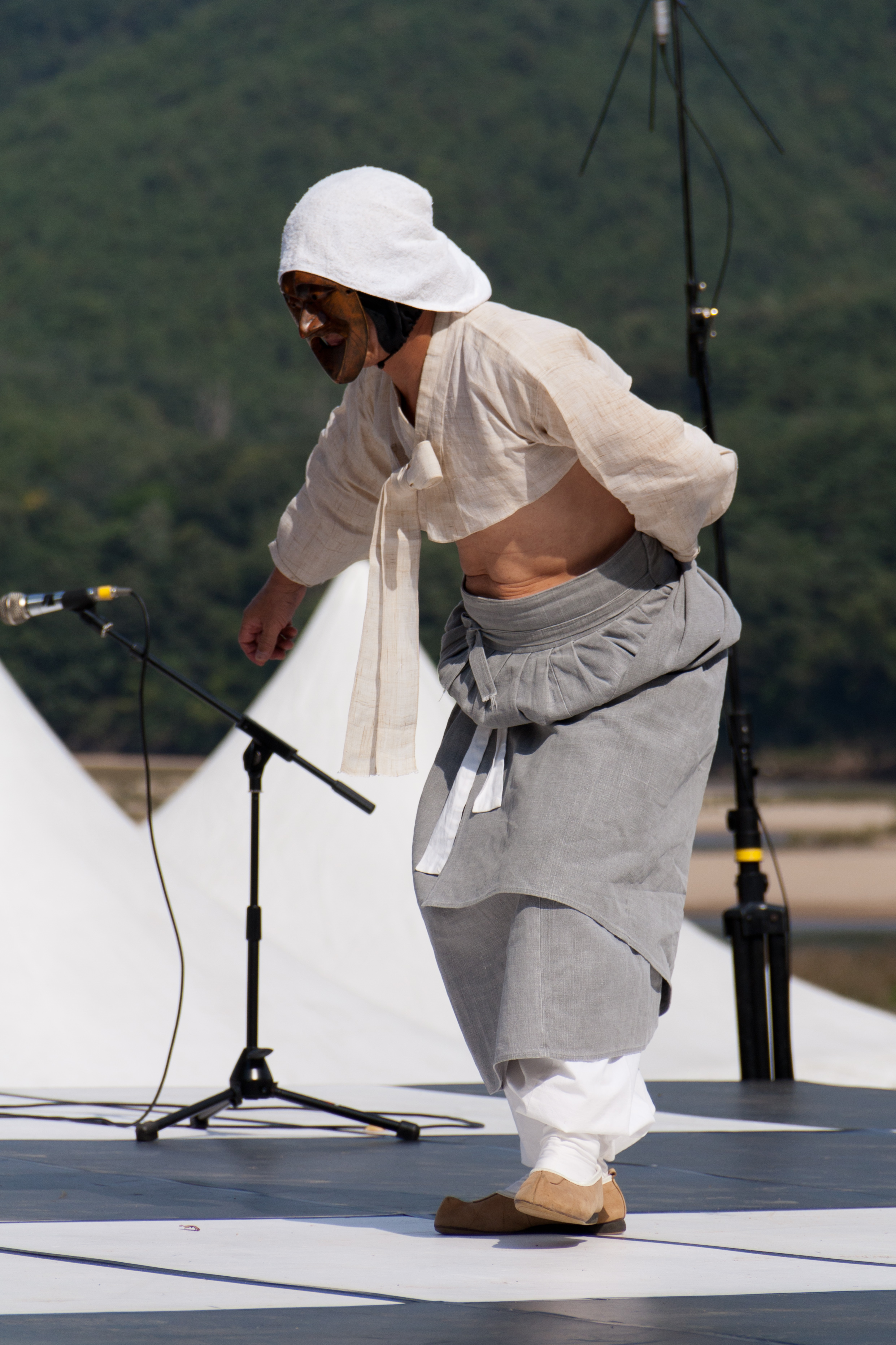 Hahoe Mask Dance